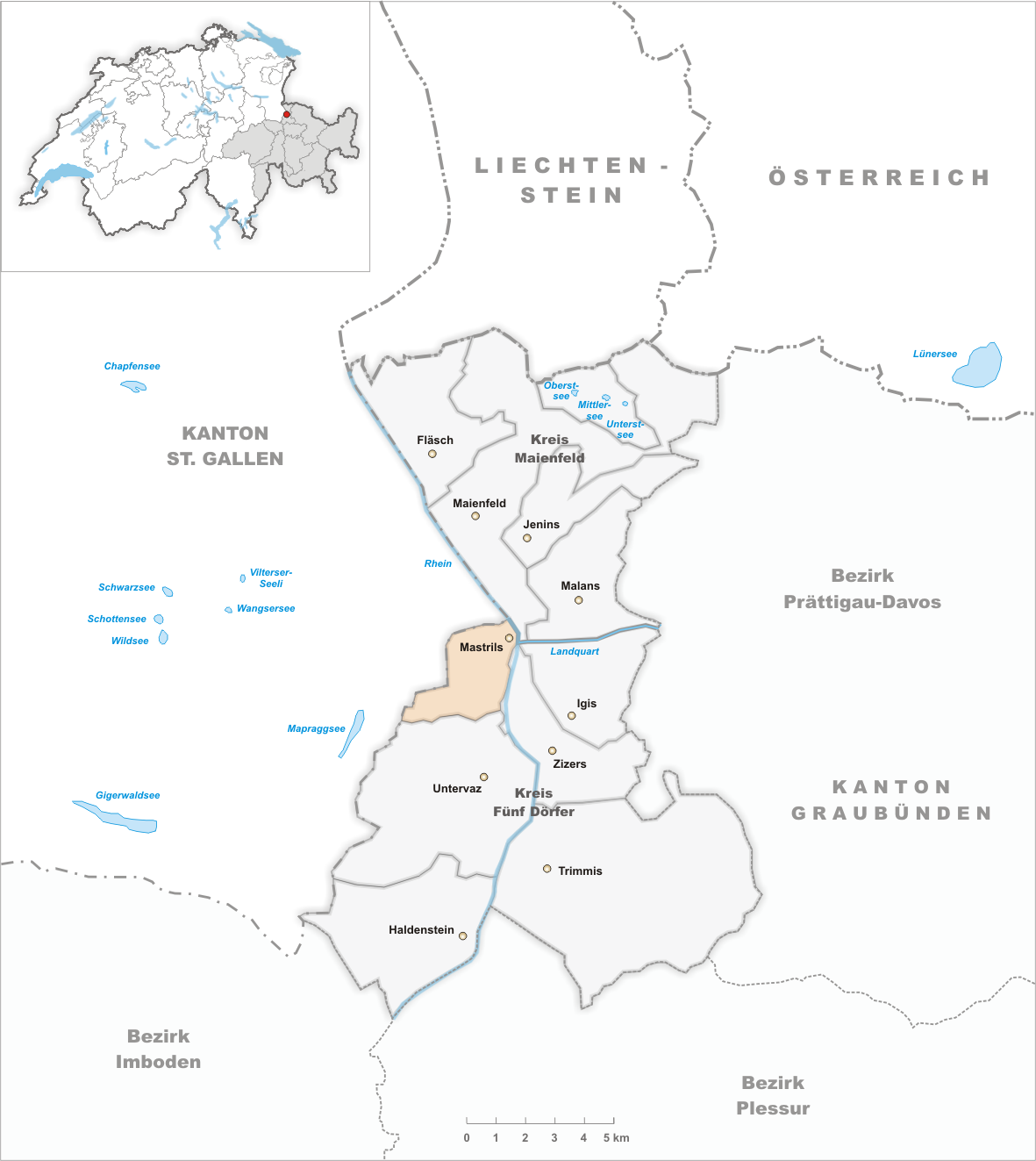 Municipality Mastrils